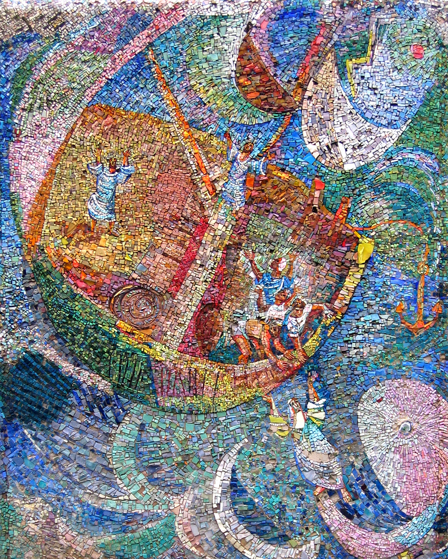 fountain & mosaic by Nahum Gutman at Bialik street, tel aviv-yaffo. the mosaic describe 4000 yers of tel aviv's history. from the mid 1970'